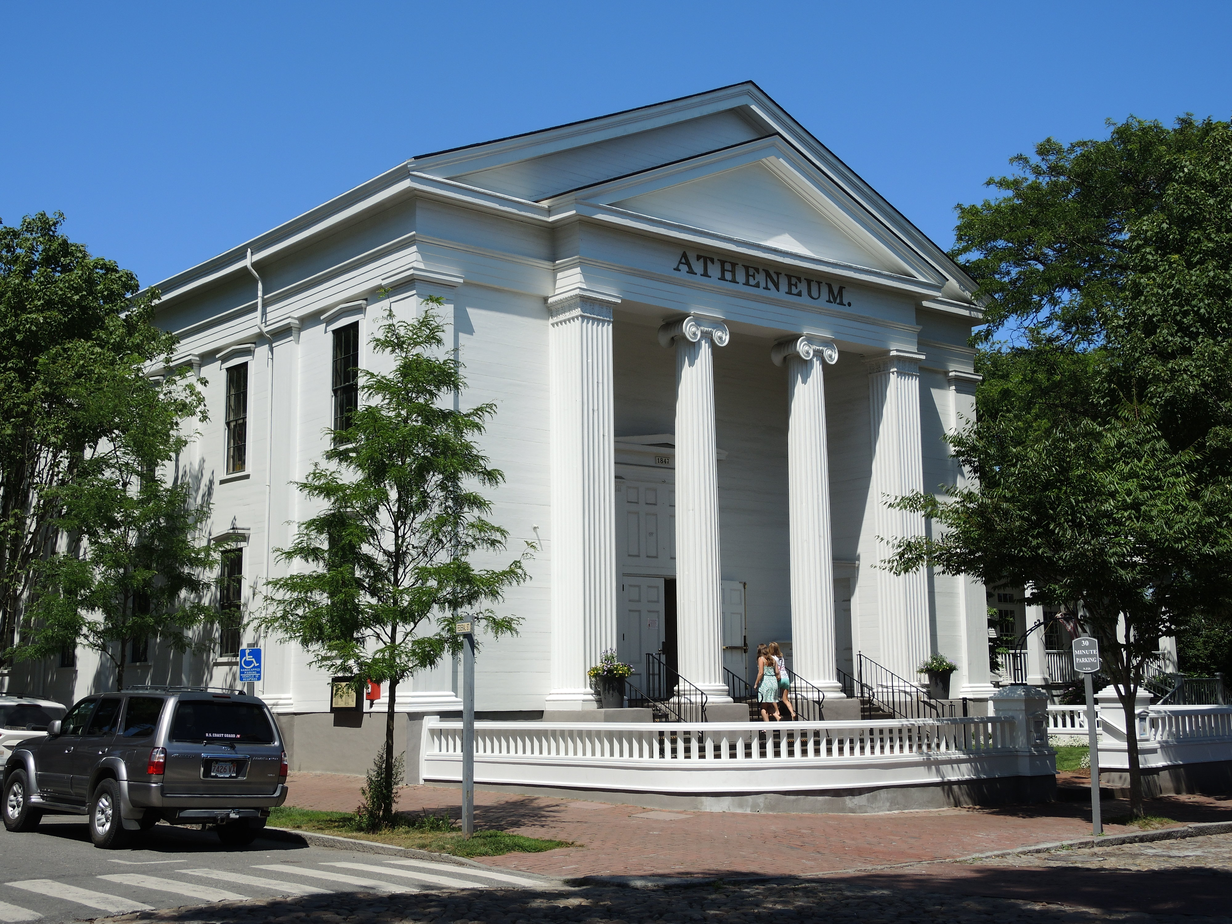 Atheneum on India Street in Nantucket